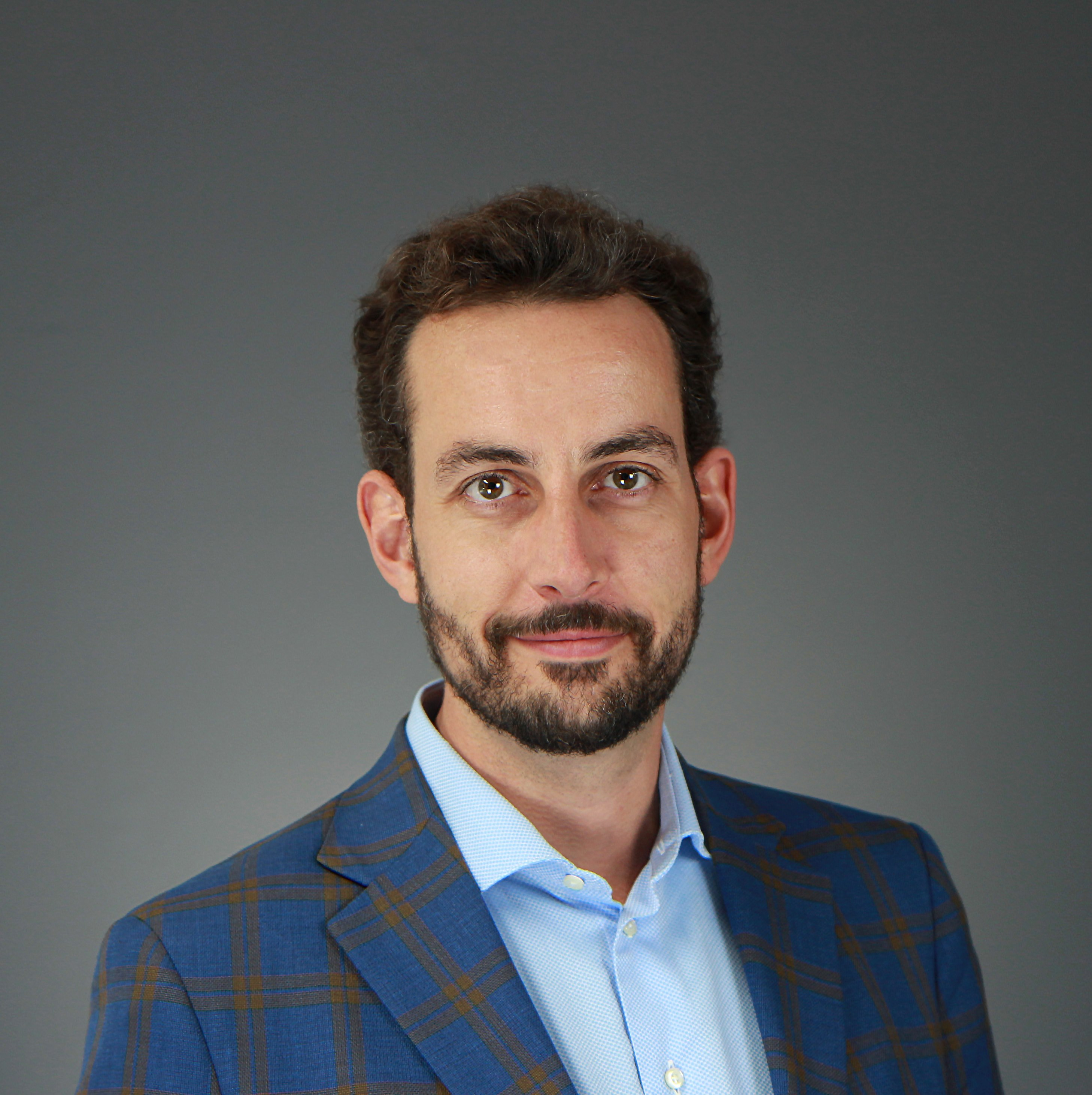 A professional headshot of Paul Peters shot by an employee of Hindawi for publicity purposes